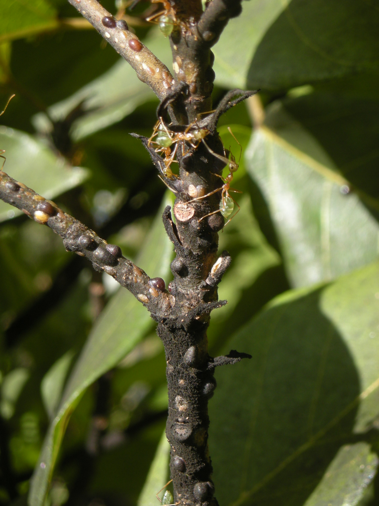 Green tree ants (Oecophylla smaragdina ) weaver ants tending scale insects on Ficus racemosa, vine scrub, Central Queensland.jpg